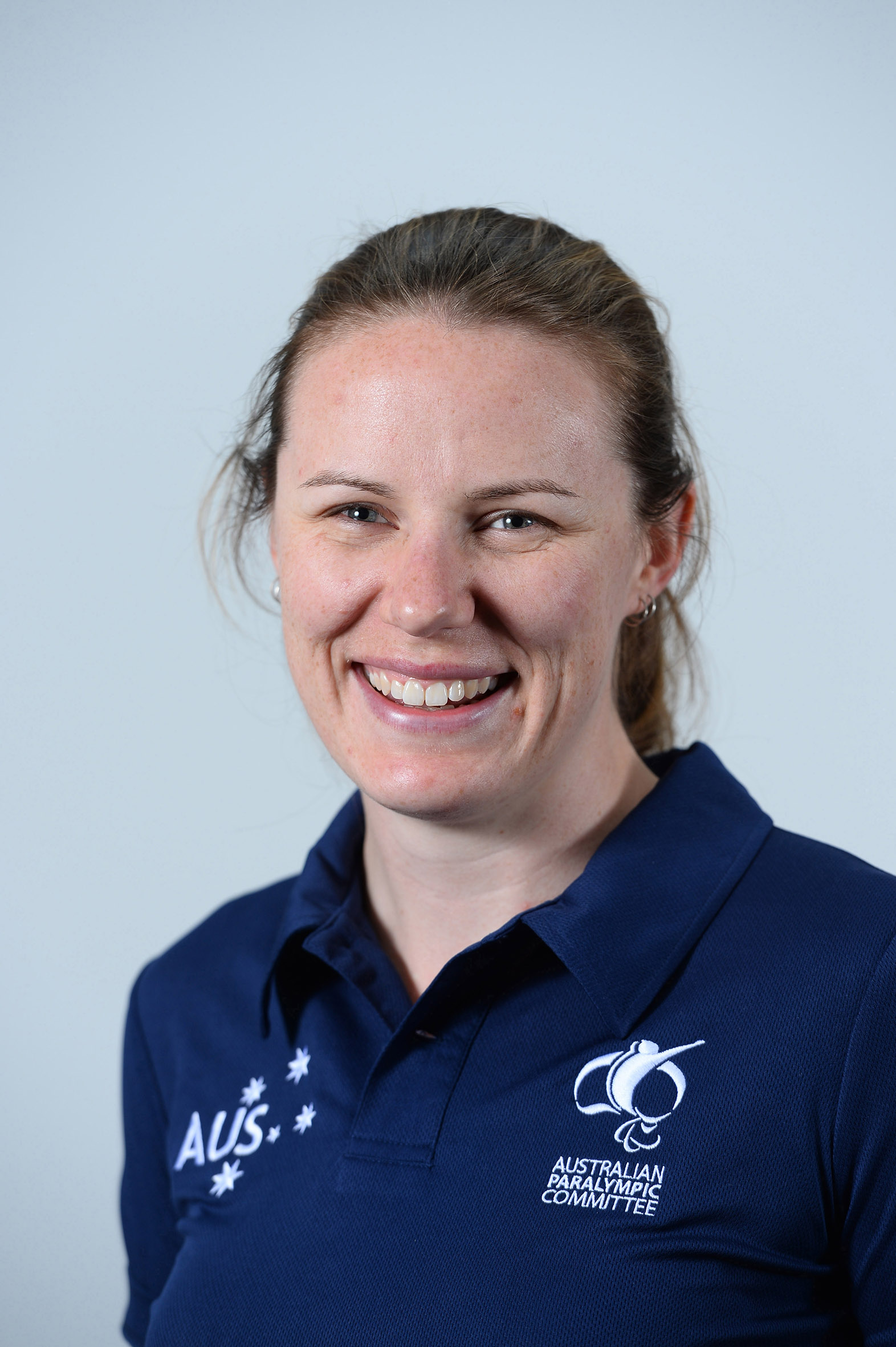 Portrait photograph of Kathleen Murdoch taken at team processing session for shadow members of 2016 Australian Paralympic team